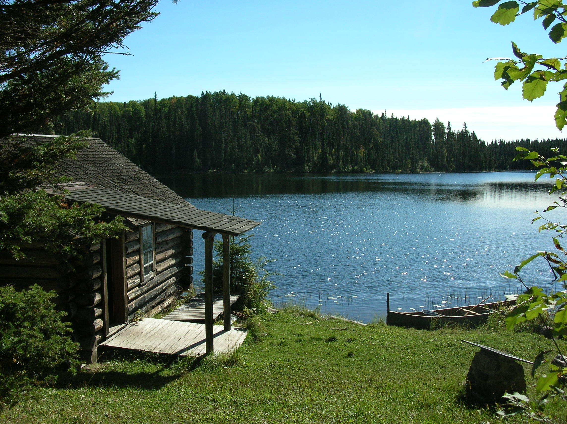 Ajawaan lake, Saskatchewan, Canada Grey Owl's cabin "Beaverlodge" (Fremte, 2006-09 with digital camera, personally taken and released freely for any use, but not for profit).